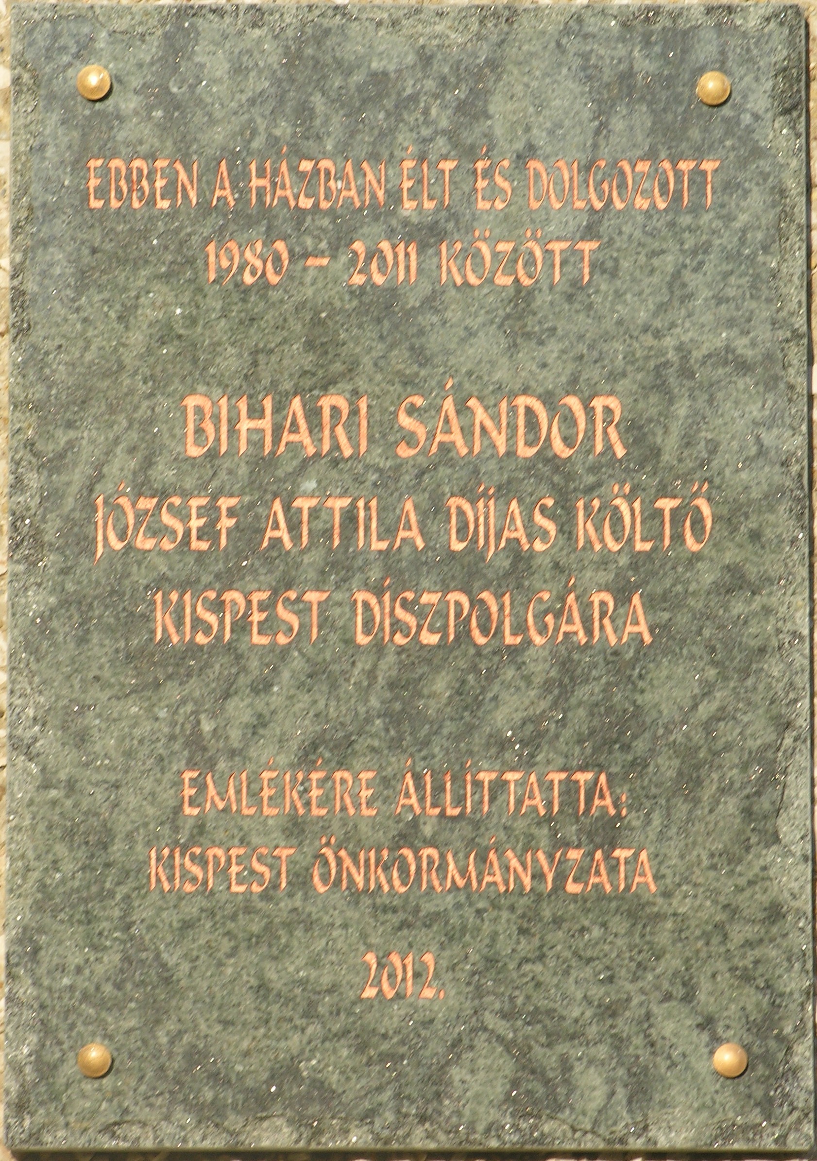 Commemorative plaque of Sándor Bihari in Budapest District XIX, Ady Endre út 54